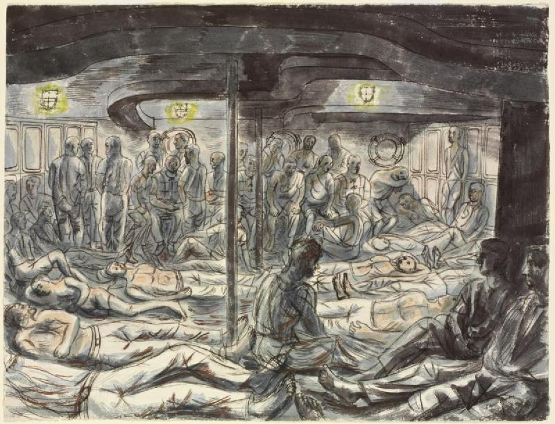 Rescued British Sailors, Soldiers, Airmen and Merchant Seamen - on the French warship Gloire image: below deck in the cabin of the Vichy French warship Gloire, filled with military personnel. Men are lying on the floor in the foreground apart from one man sitting up in the centre. In the background men are sitting and standing.